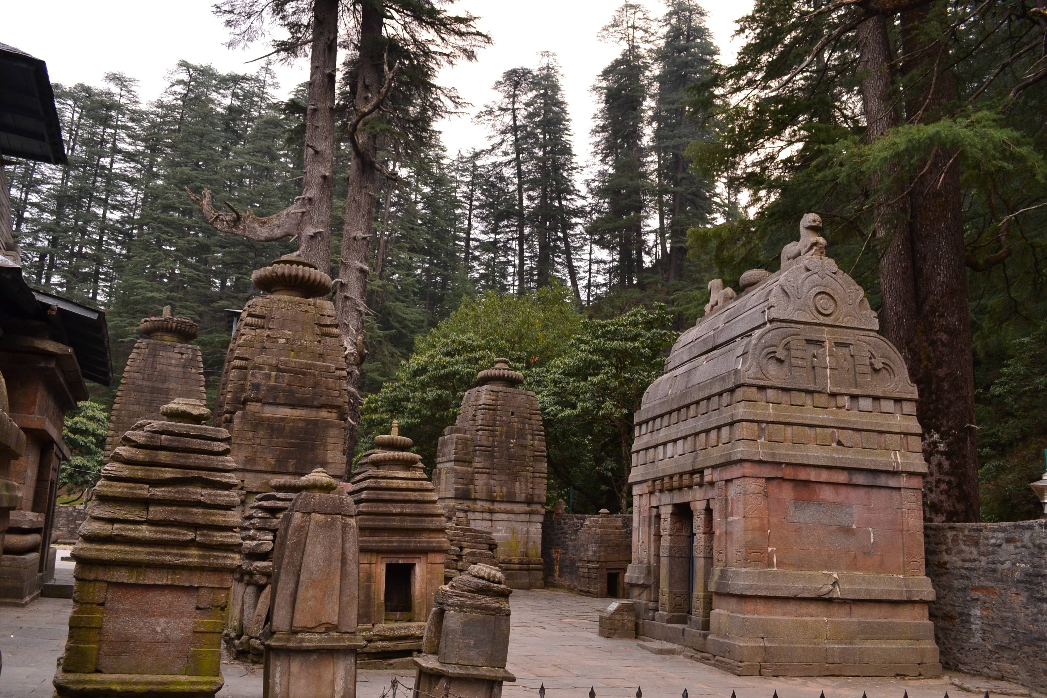 The cluster of ancient temples at Jageshwar in the evening.